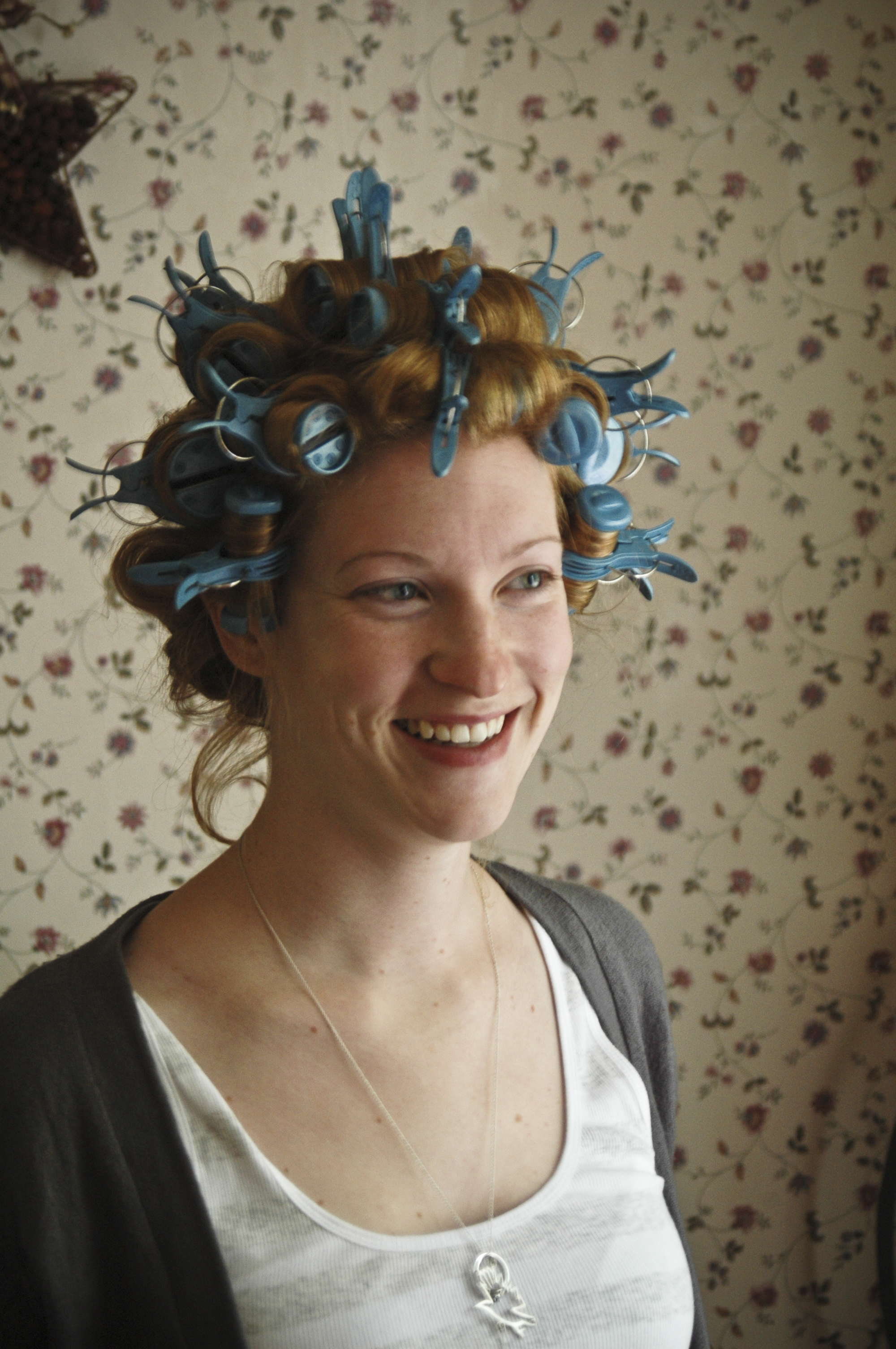 Smiling red haired woman with curlers in her hair.